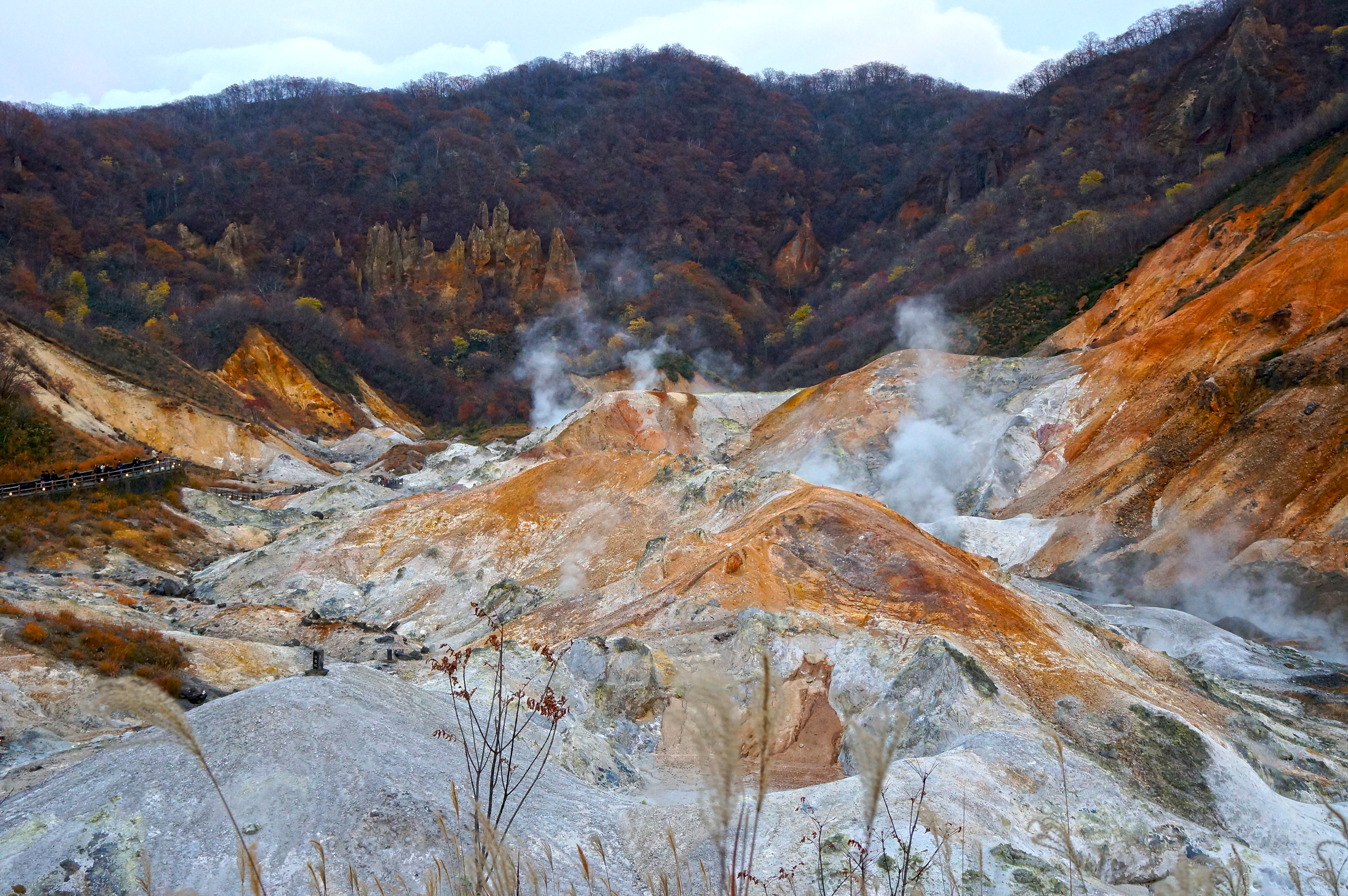 At Jigokudani in Noboribetsu Onsen, Noboribetsu, Hokkaido prefecture, Japan.